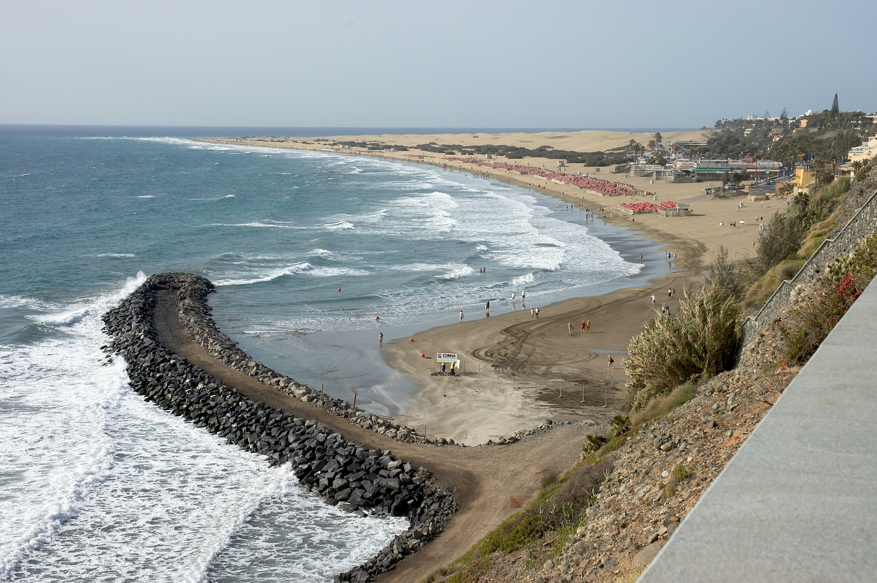 Gran Canaria, Playa del Inglés beach, looking direction South.